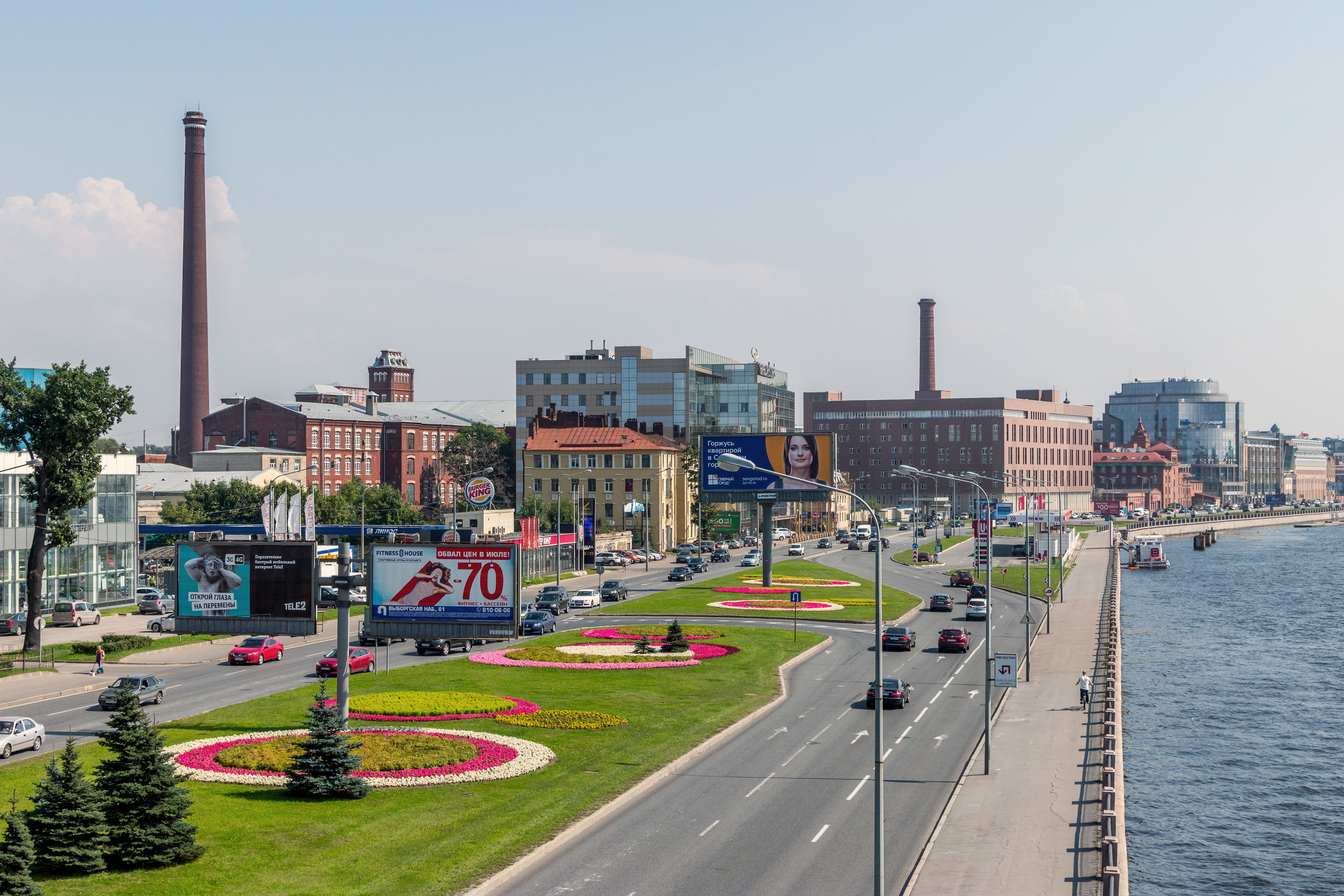 Vyborgskaya Embankment in Saint Petersburg